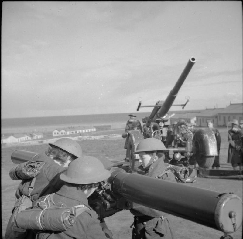 The British Army in the United Kingdom 1939-45 ATS women operate a rangefinder at the anti-aircraft training camp at Weybourne in Norfolk, 23 October 1941. A mobile 3.7-inch gun can be seen in the background.